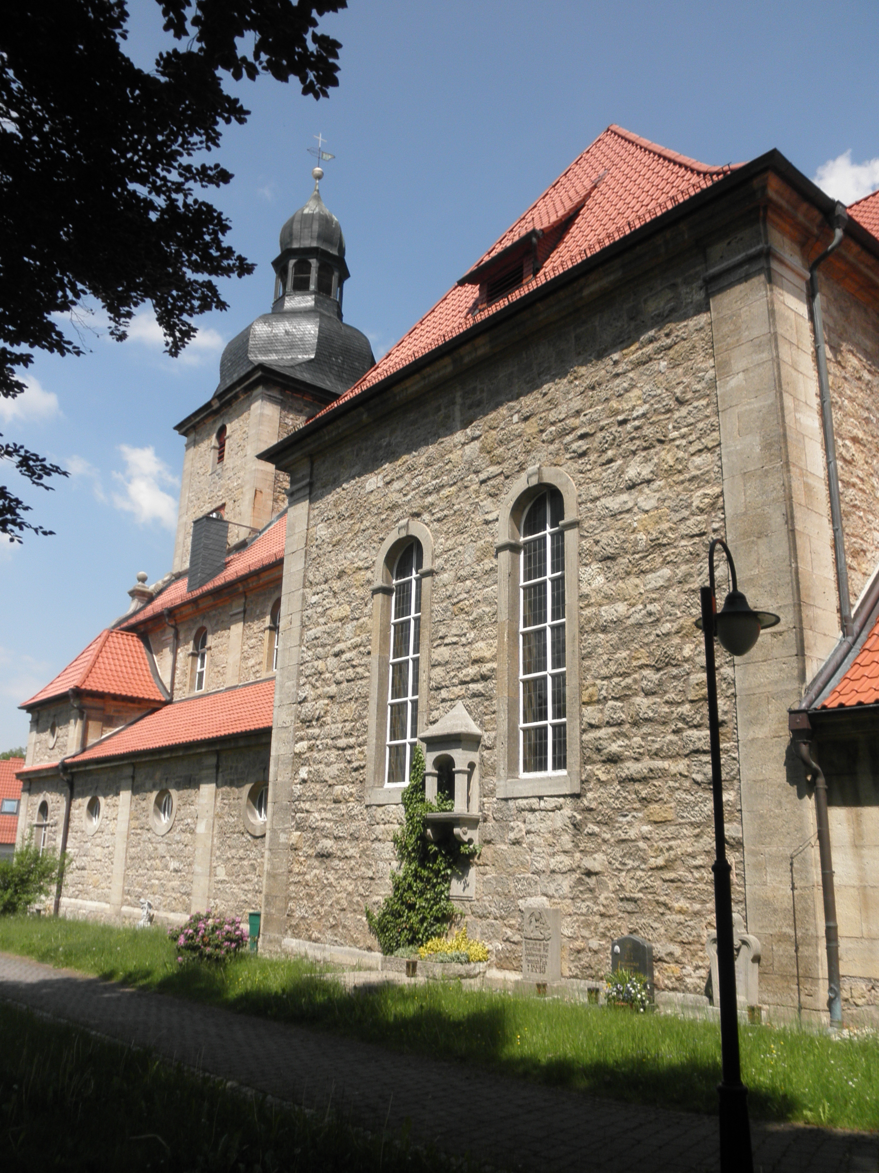 Church in Geisleden (Eichsfeld) in Thuringia